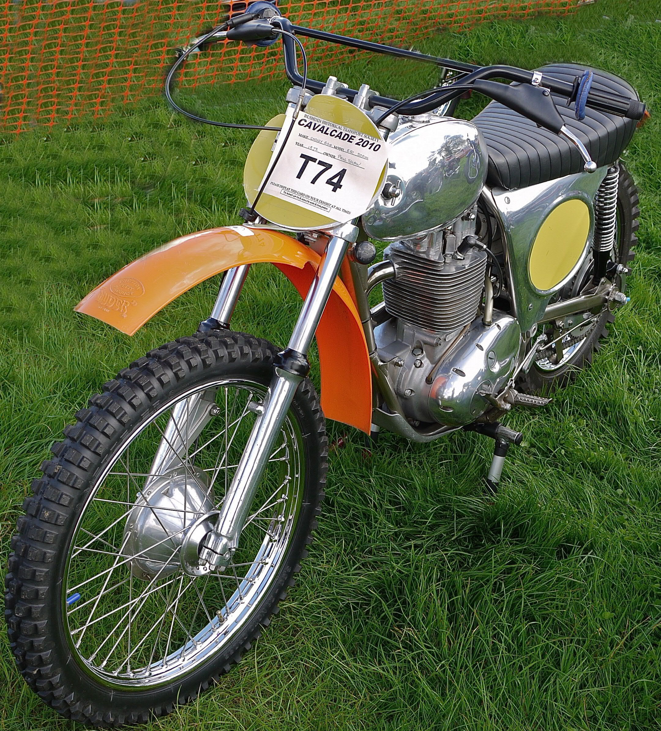 Cheney BSA 500cc B50 Victor 1973. Panasonic G1 14-45 Lens